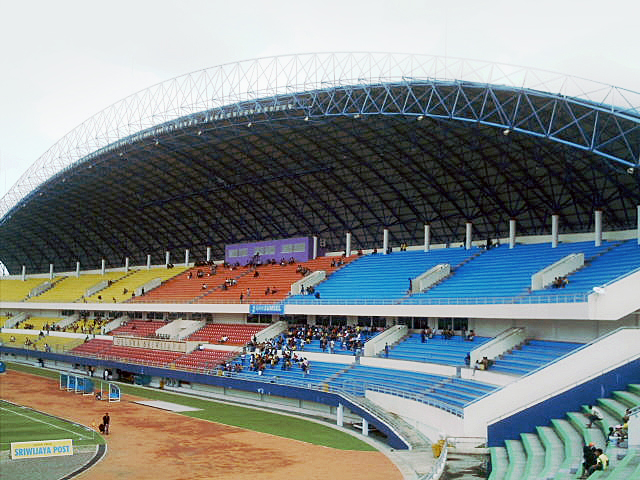 Gelora Sriwijaya Stadium, in Jakabaring, Palembang, South Sumatra, Indonesia.